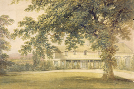 Holnicote House, Selworthy, Somerset, the Cottage Orne style building re-built by Sir Thomas Dyke Acland, 10th Baronet (1787–1871) in the early 19th century and destroyed by fire in 1851. Collection of National Trust, Killerton House.(